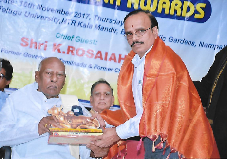 మాజీ ముఖ్యమంత్రి కొణిజేటి రోశయ్య ద్వారా పురస్కారం అందుకుంటున్న శ్రీరామచంద్రమూర్తి